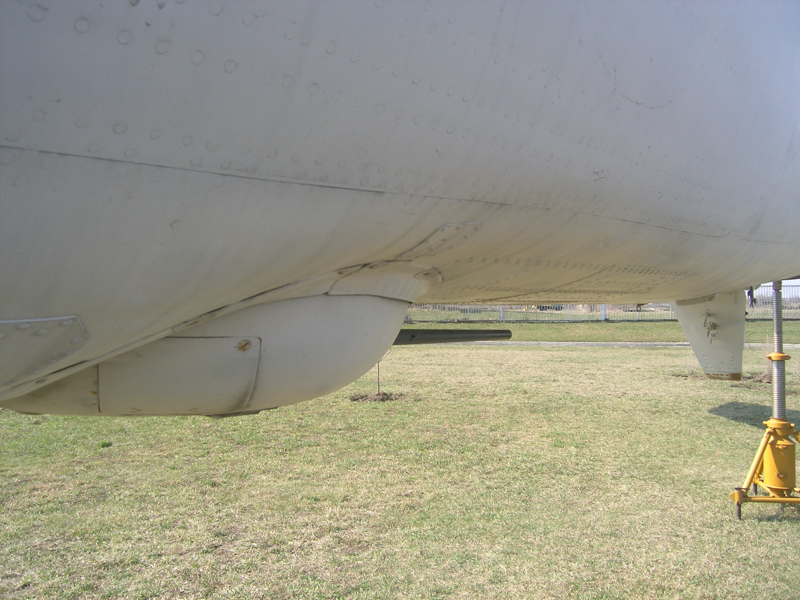 Tu-16, technical museum, Togliatti, Russia